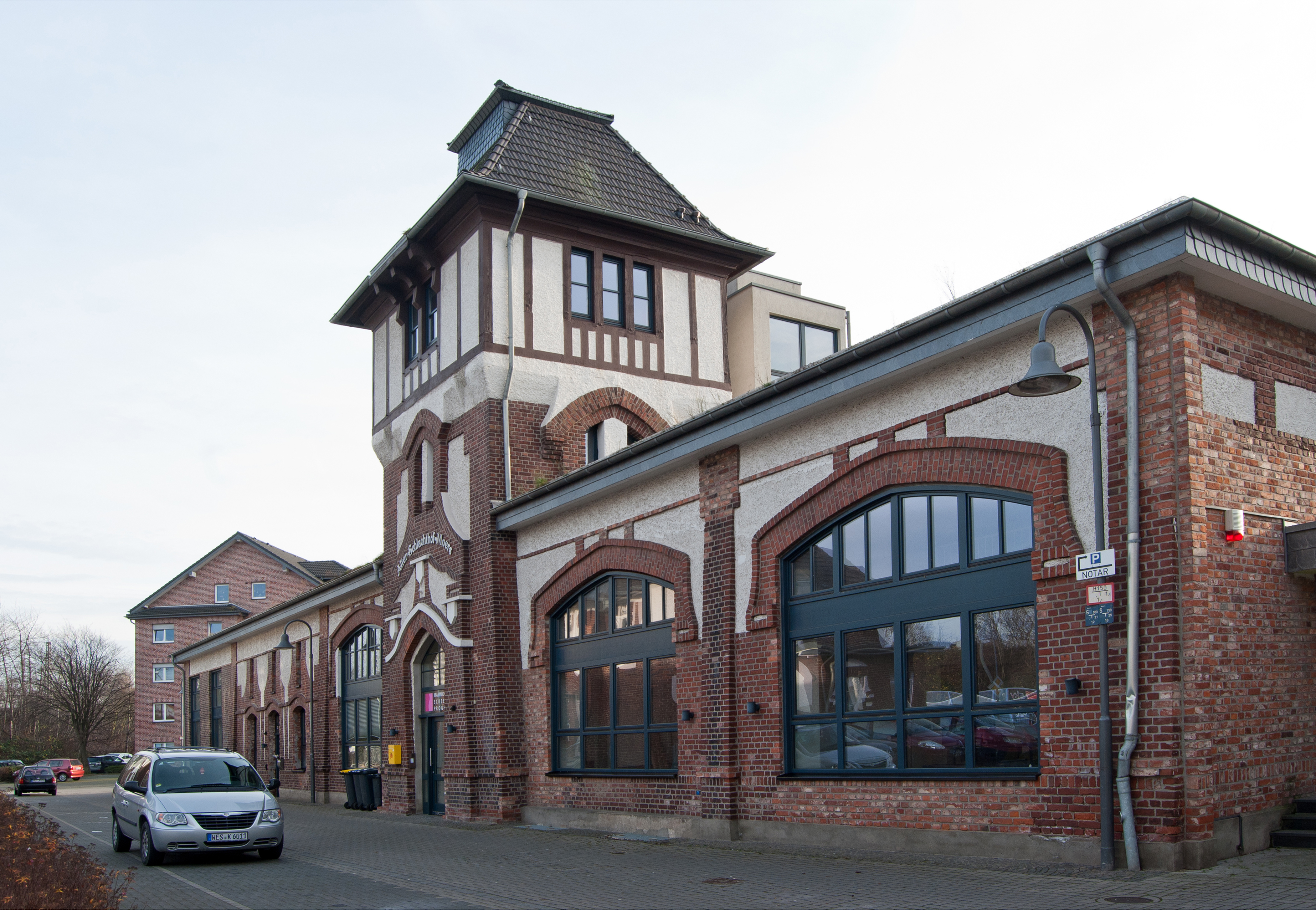 Moers (North Rhine-Westphalia, Germany) – “Alter Schlachthof” (old slaughterhouse) This image shows a heritage building in Germany, located in the North Rhine-Westphalian city Moers (no. 61). This photograph was taken with a Nikon D3000.